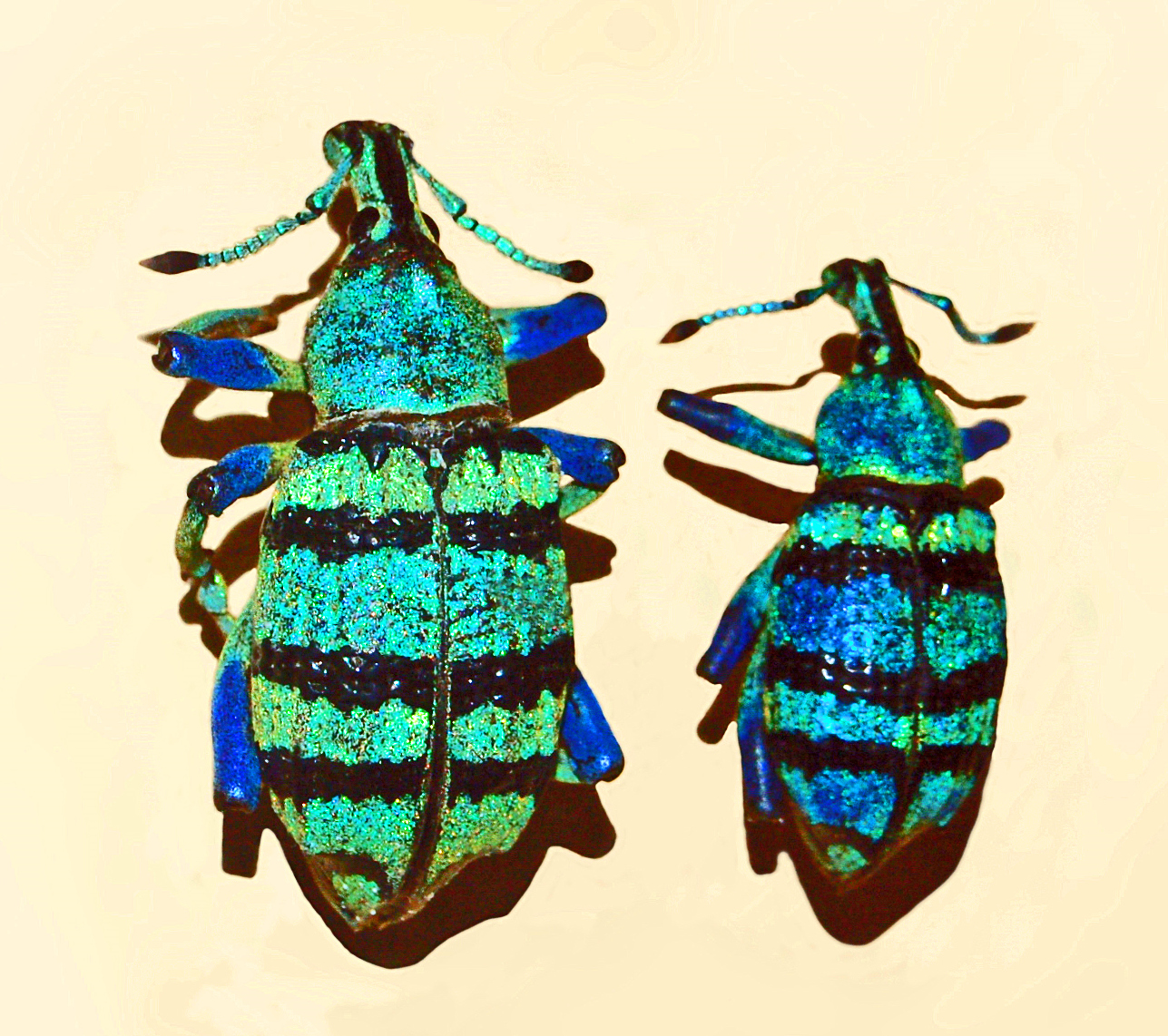 Eupholus schoenherrii petiti from New Guinea